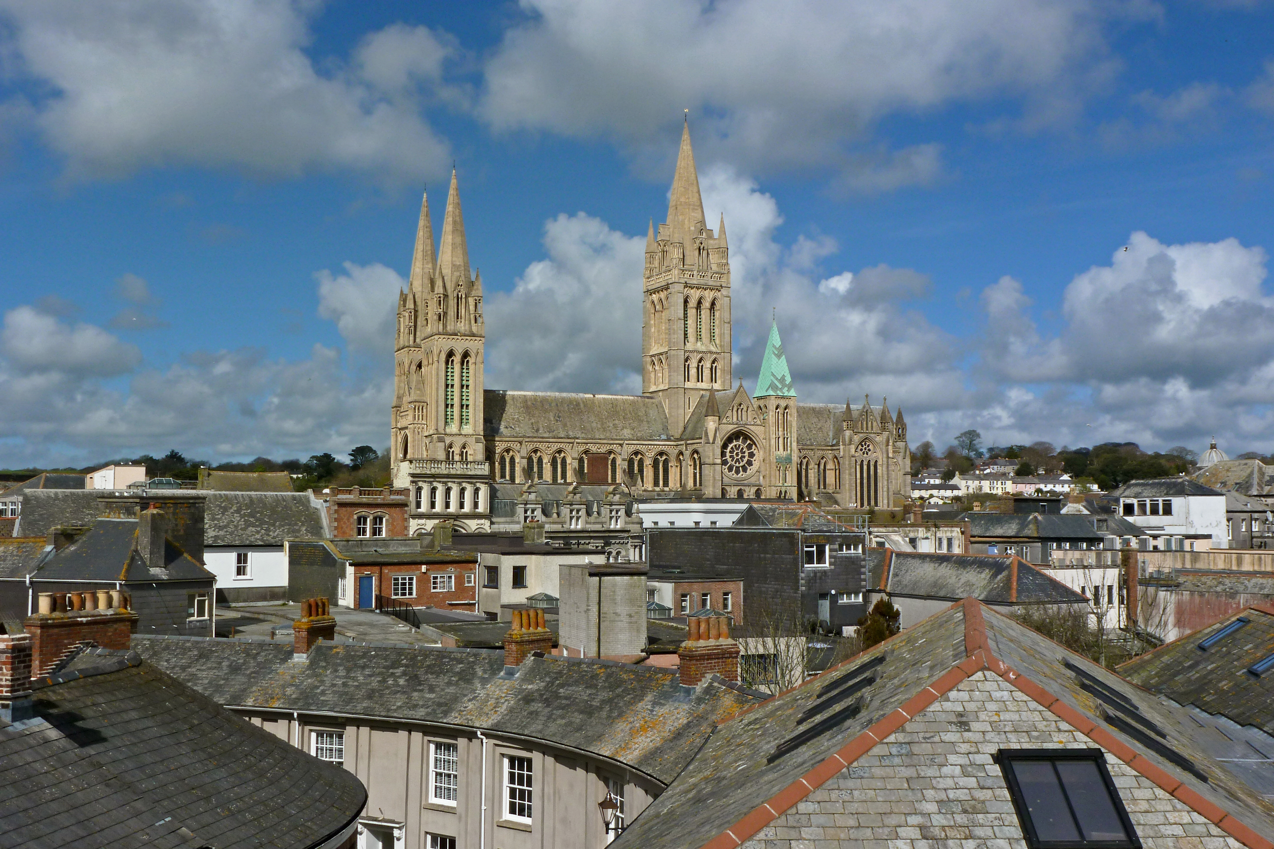 Truro Cathedral